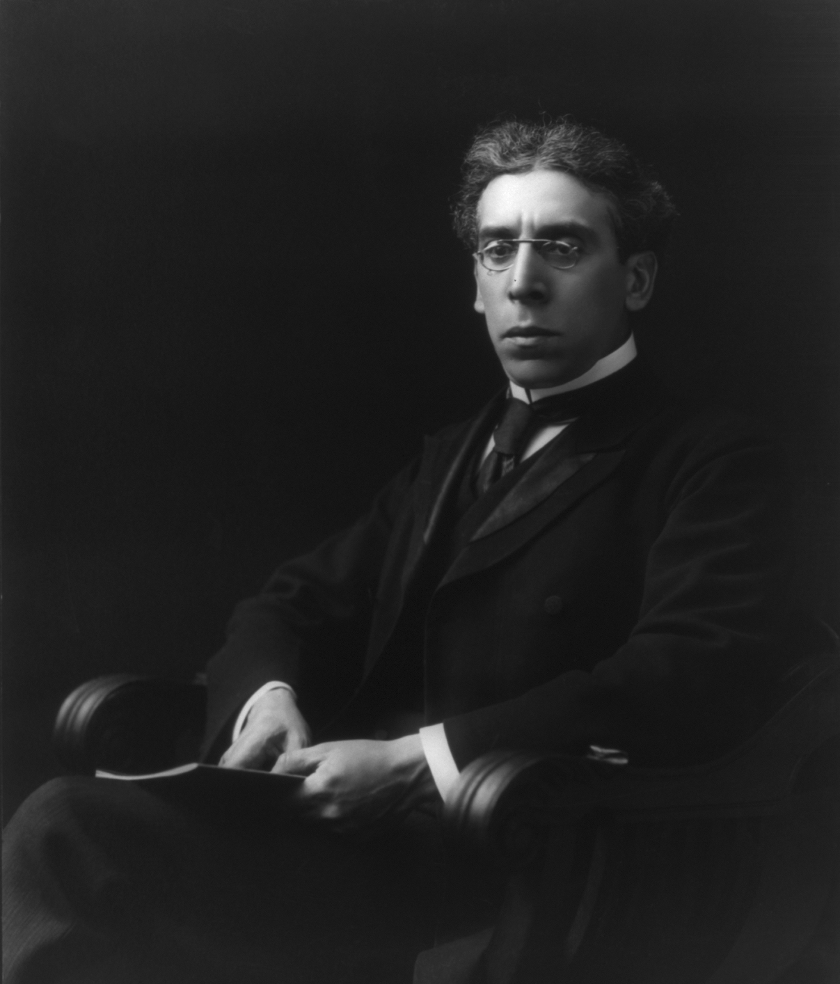 English Zionist leader, playwright and novelist Israel Zangwill (1864-1926)